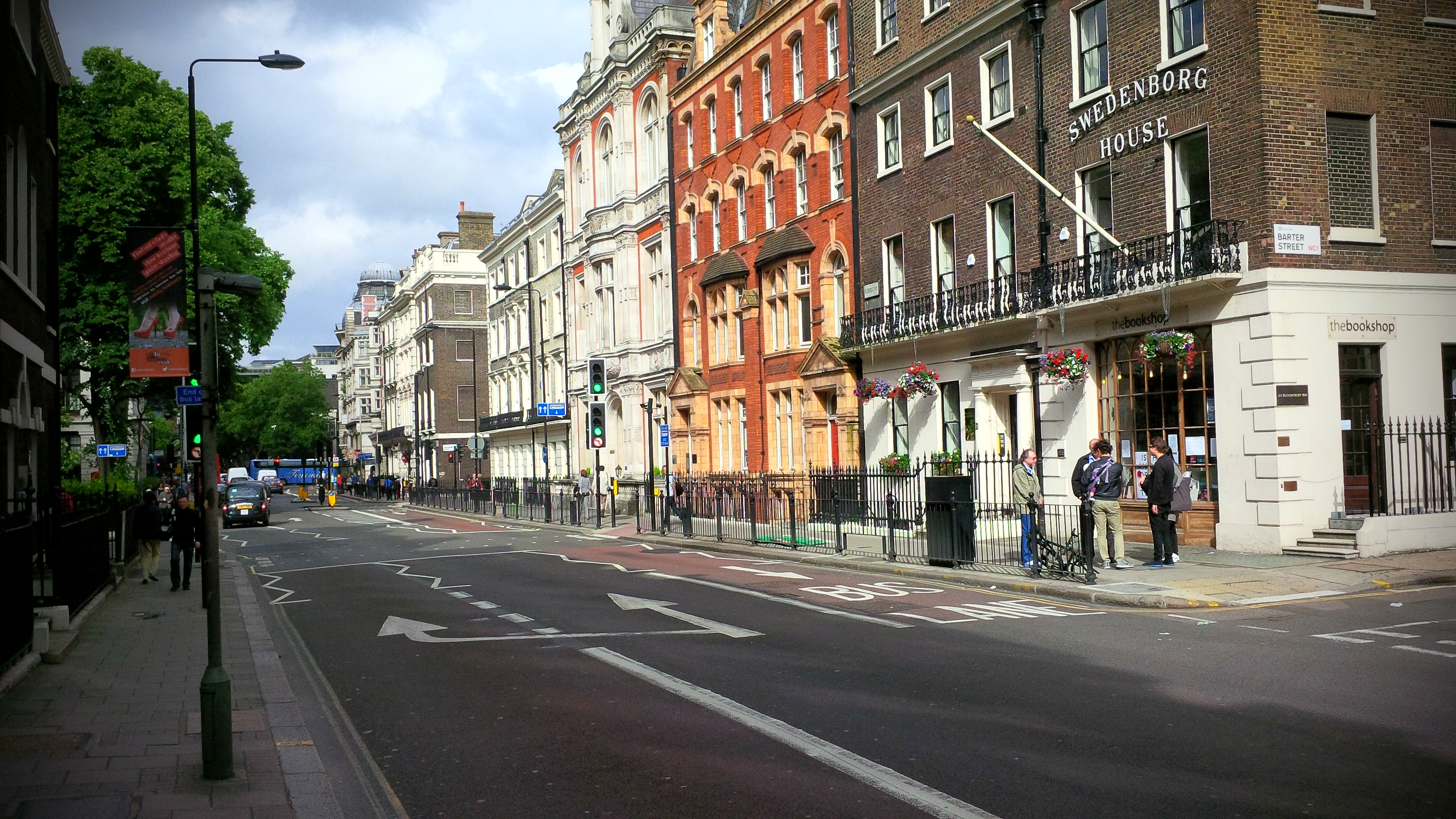 Swedenborg House, London (view from the Bloomsbury Way).